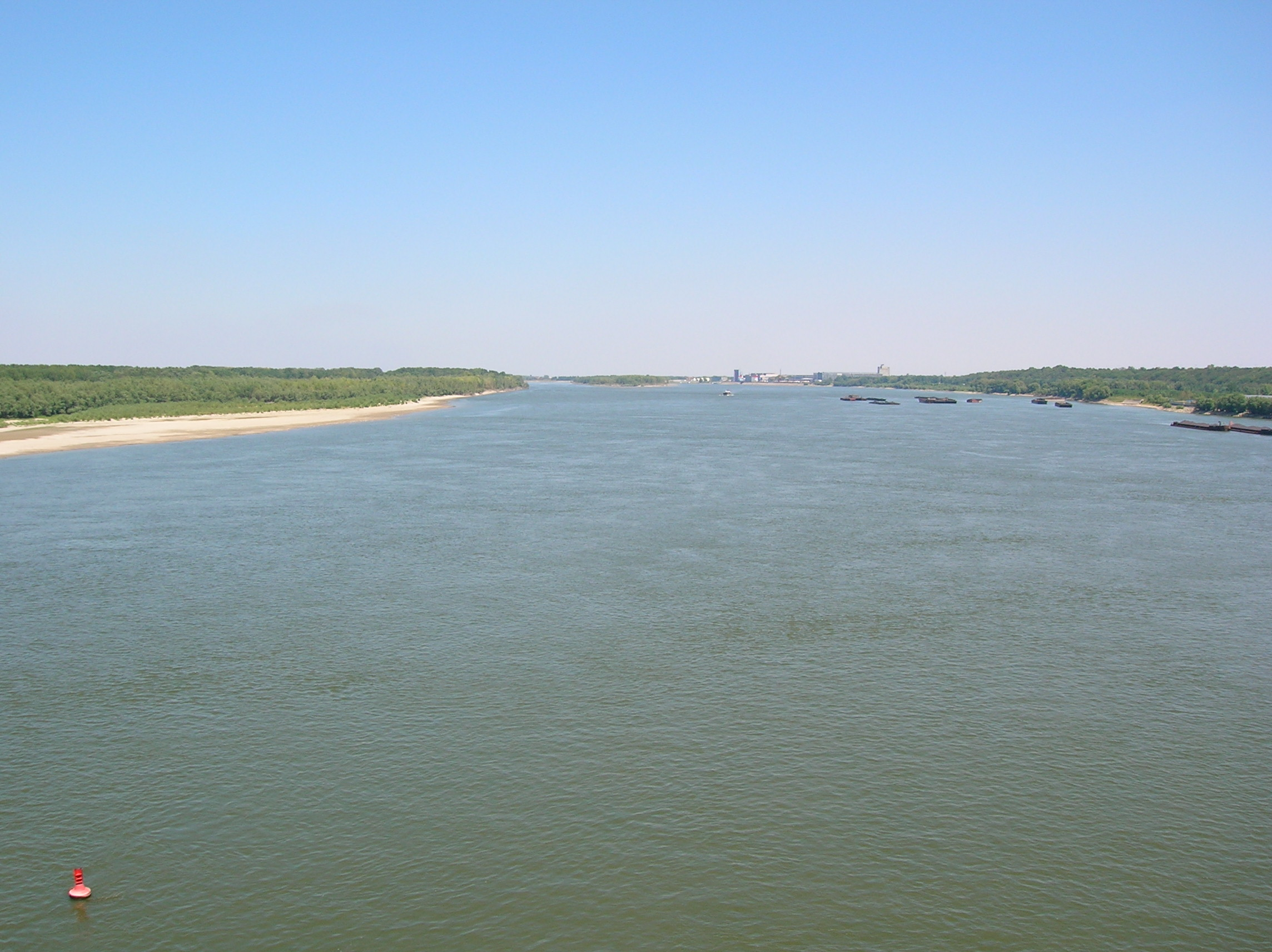 Danube from the train, on the bridge crossing the border between Giurgiu (Romania) and Ruse (Bulgaria).